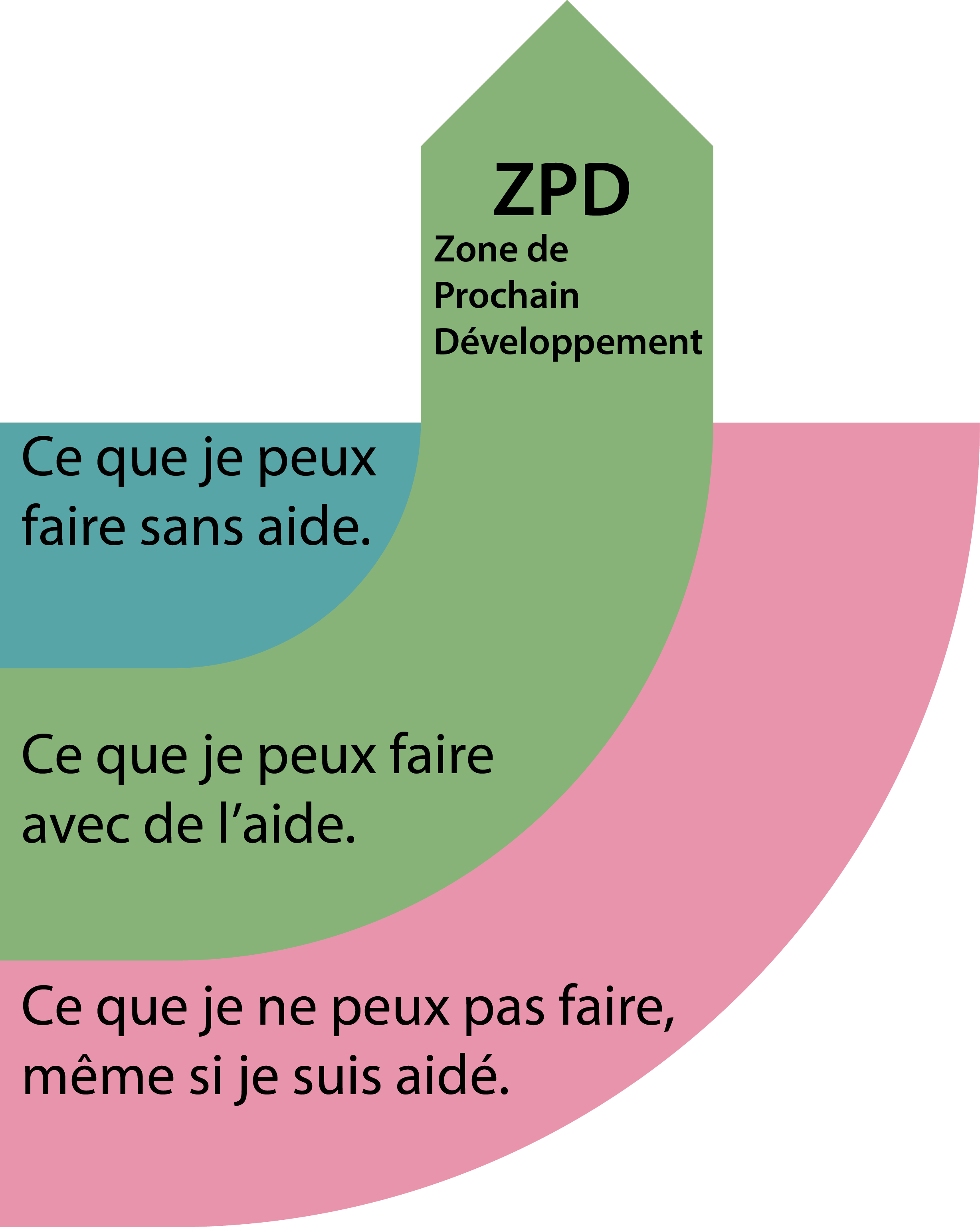 Illustration of the zone of proximal development, the central region where a child can complete a task with adult guidance, but not without it. This represents the borders of their current capability.